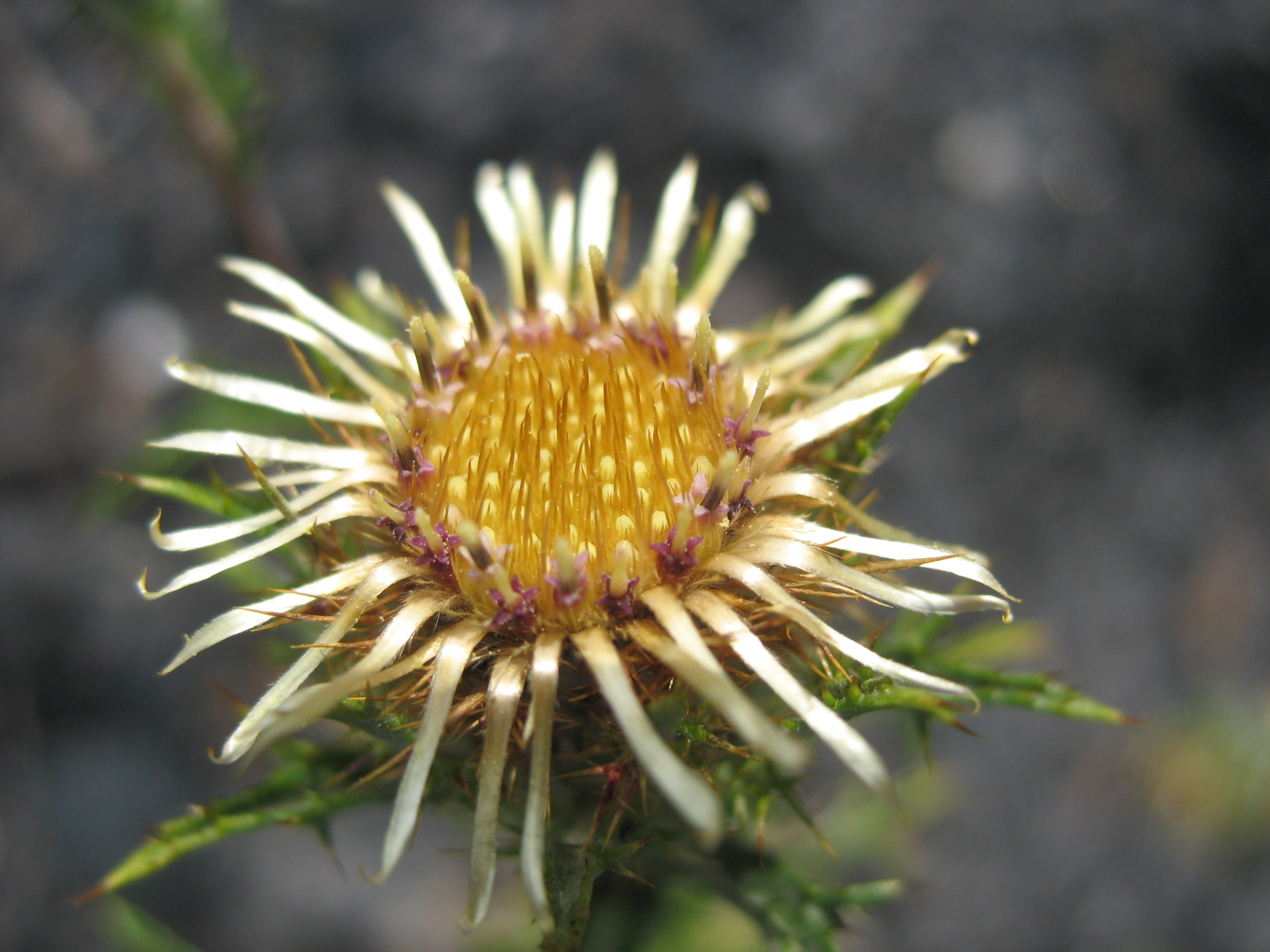 View of the total inflorescence of Carlina vulgaris (Asteraceae)